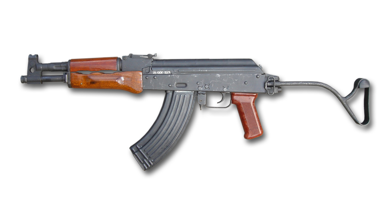 Romanian short AK rifle